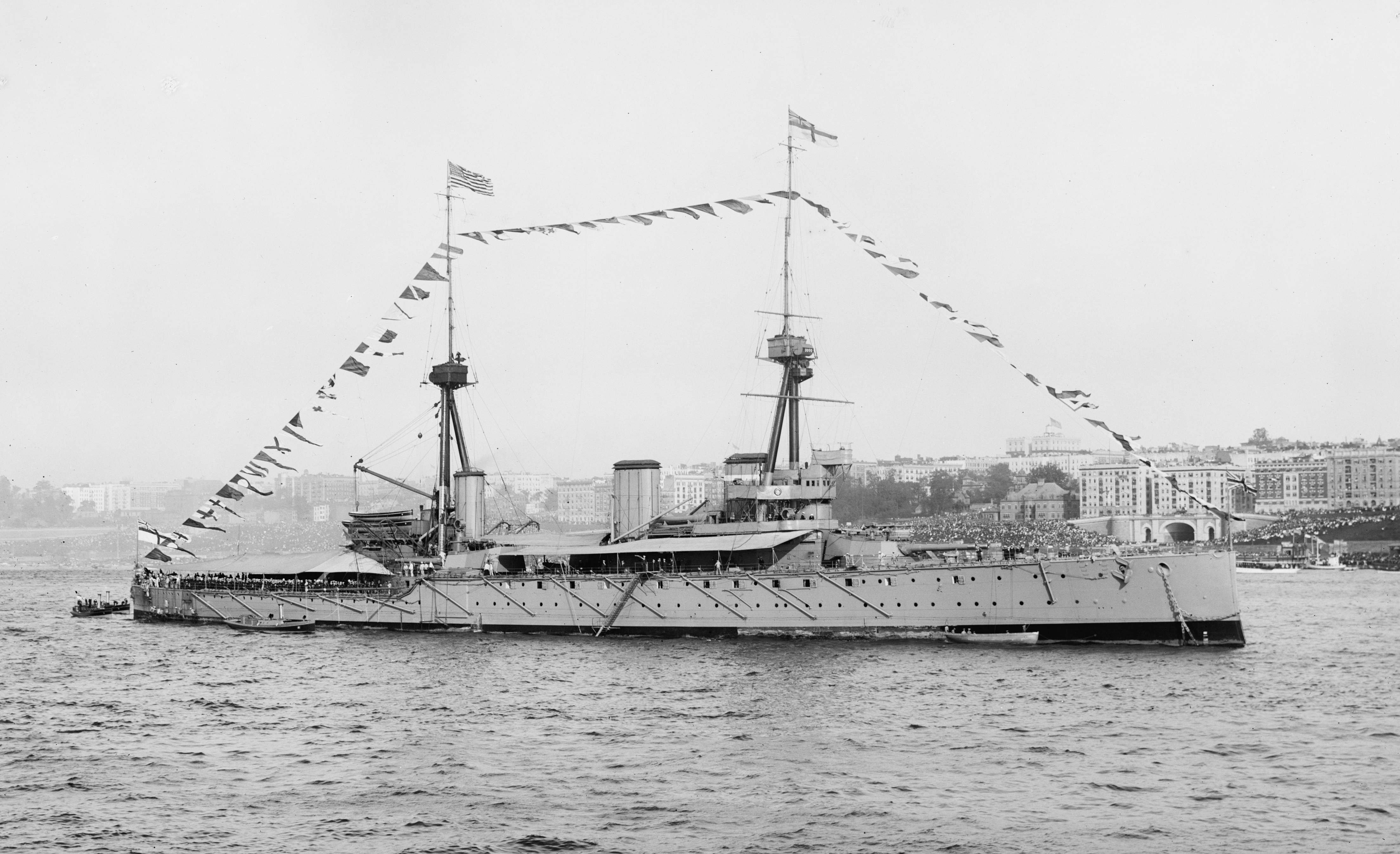 HMS Inflexible